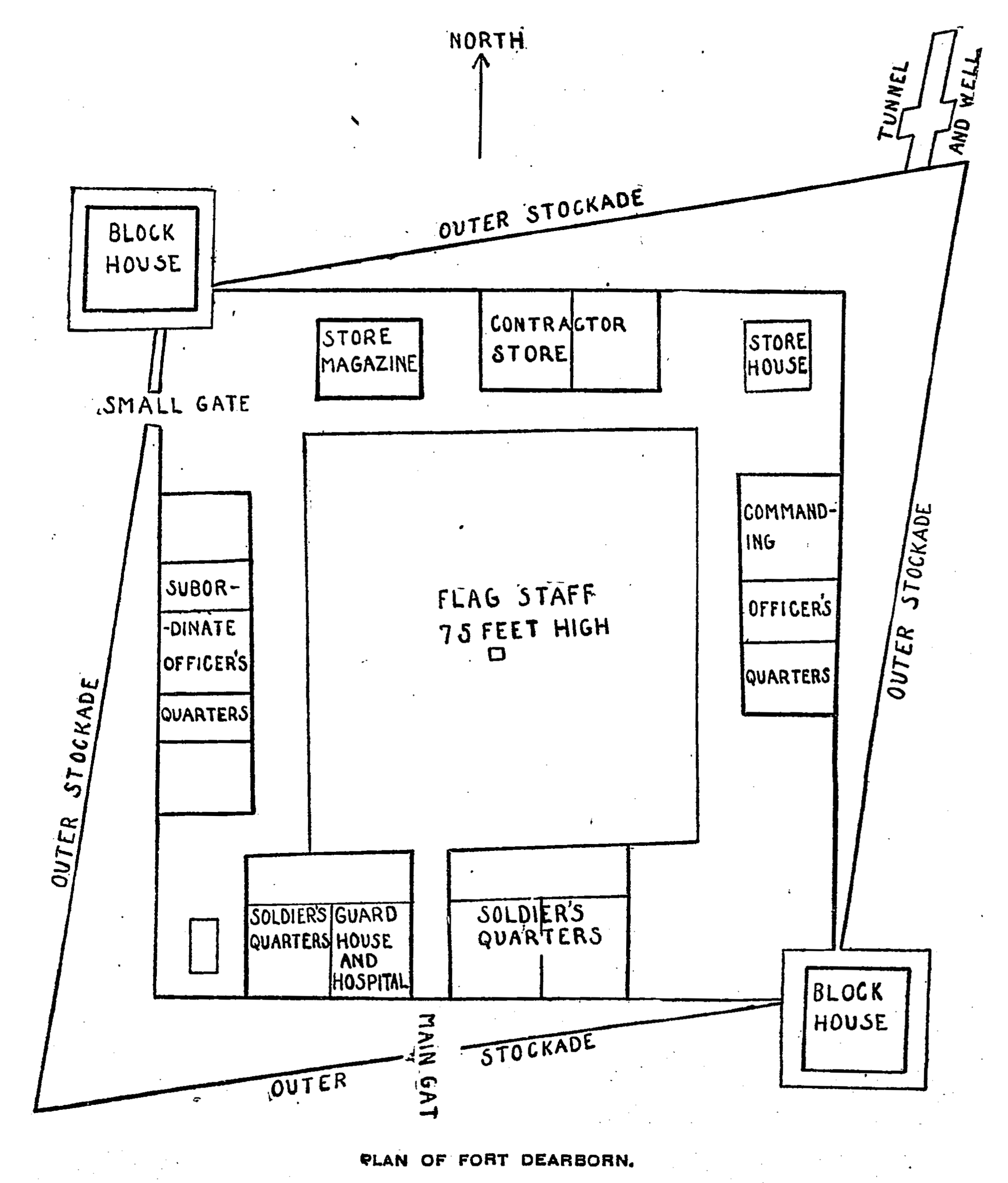 Plan of the first Fort Dearborn, Chicago, Illinois